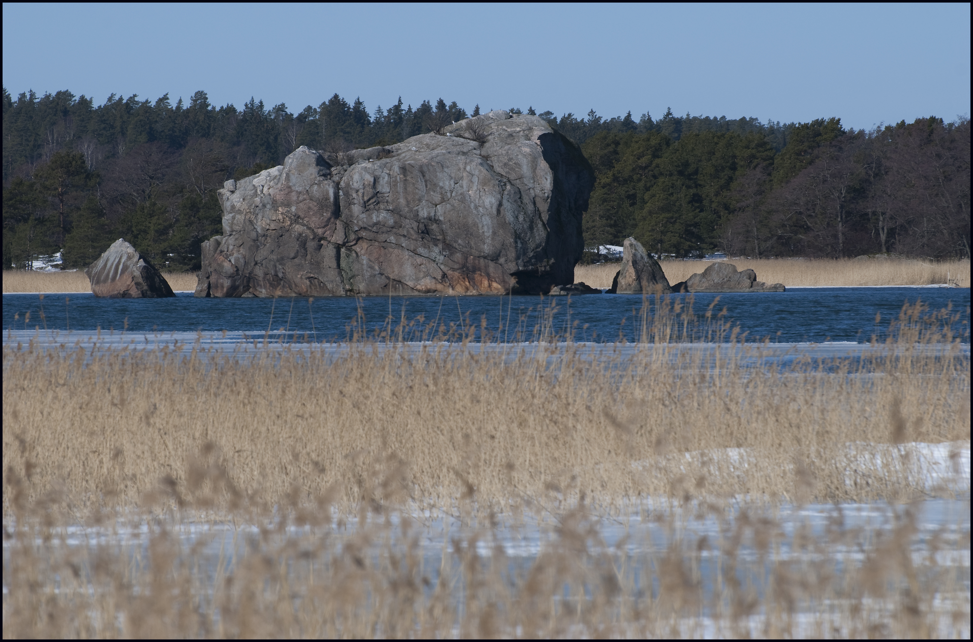 Kukkarokivi, glacial erratic, Ruissalo Rock in Turku, Finland